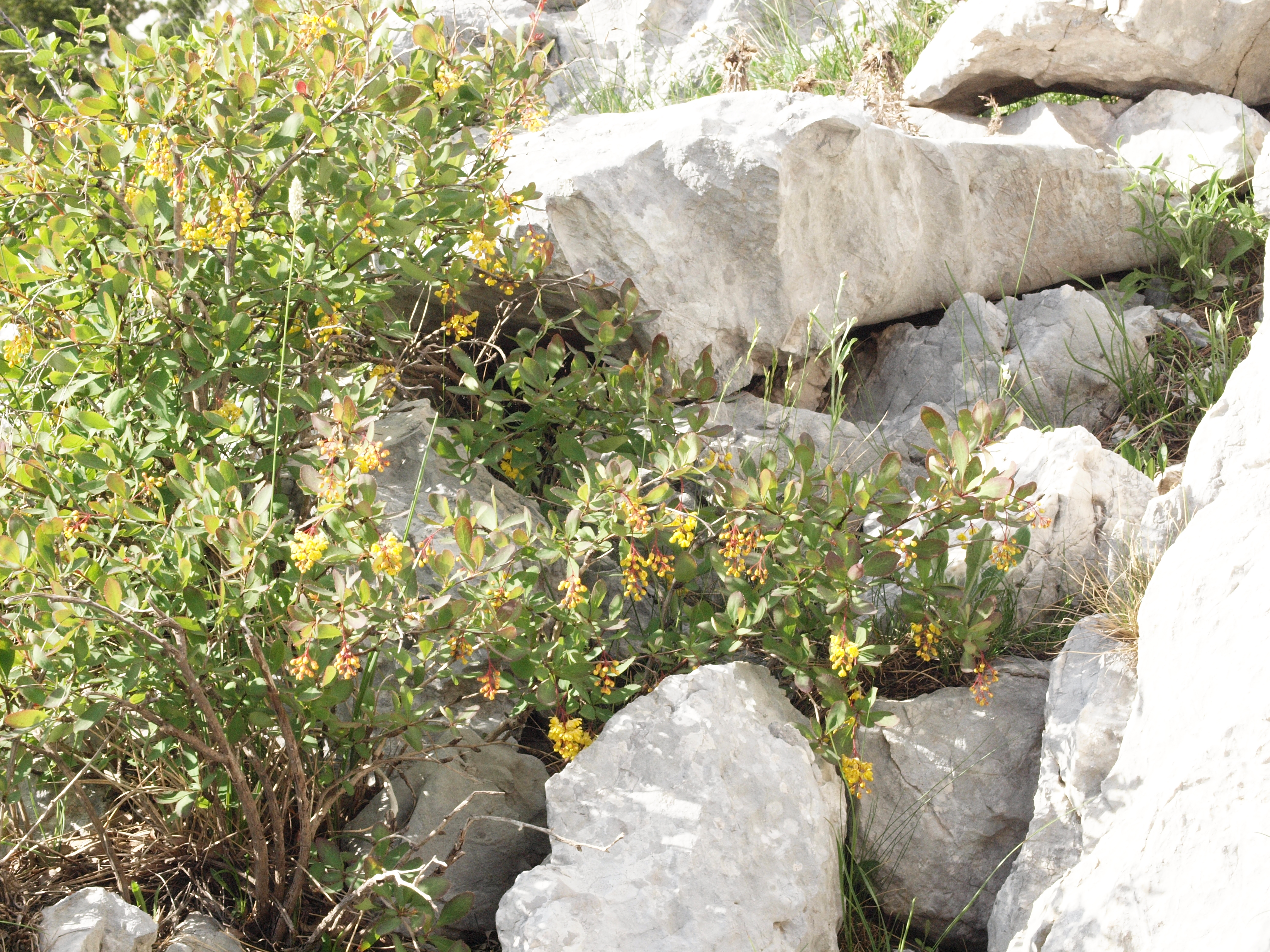 Berberis illyrica from Lonicero-Rhamnion falacis subalpine kurmholz Mt. Orjen